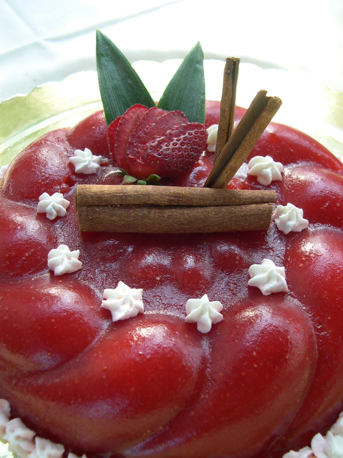 Strawberries gelatin